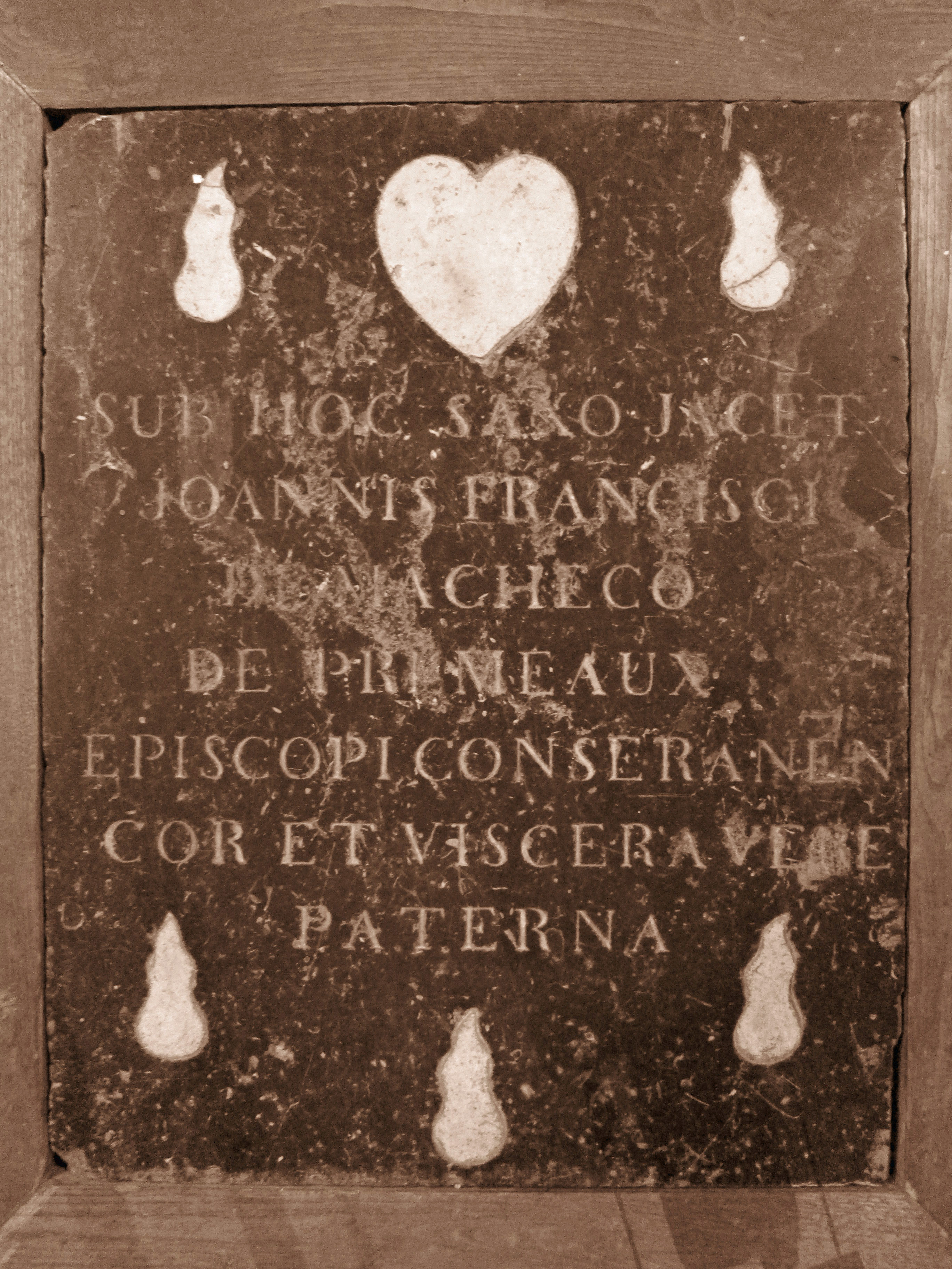 Saint-Lizier (Ariège, France) : Ledger stone of Jean-François de Machéco de Prémeaux in the cathedral. Caption: "SUB HOC SAXO JACET / JOANNIS FRANCISCI / DEMACHECO / DE PREMEAUX / EPISCOPI CONSERANEN / COR ET VISCERA VENE / PATERNA"